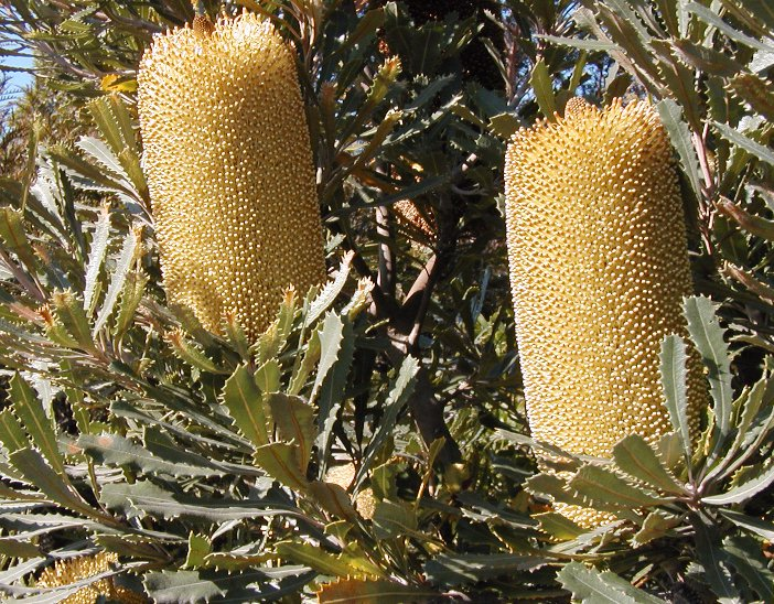 Banksia media inflorescences, Keilor Botanic Gardens photo - Cas Liber